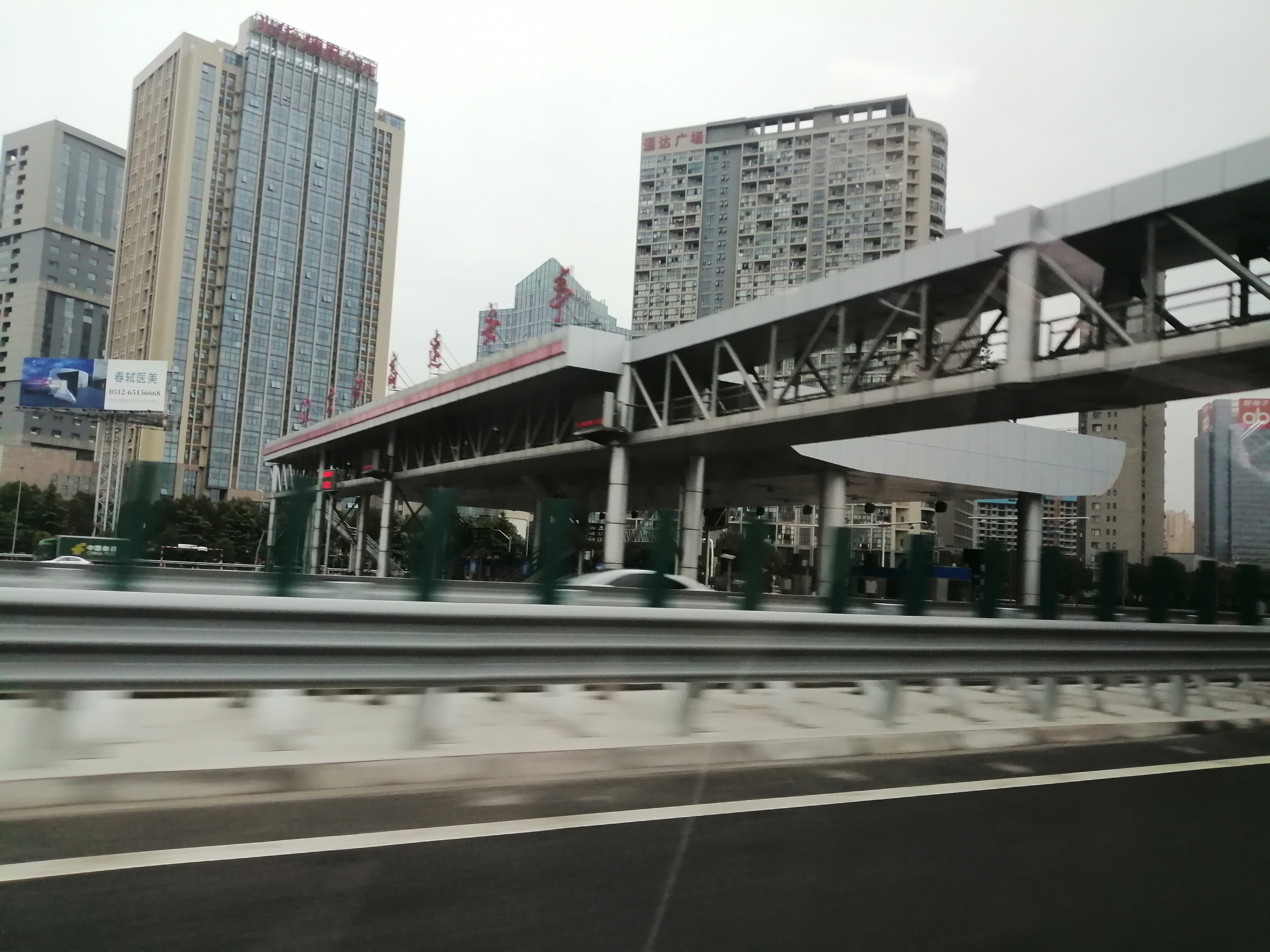 The former Anting Toll Station at Jiangsu-Shanghai boundary. This toll station is located on G2 Jinghu Expressway and G42 Hurong Expressway (Shanghai-Nanjing Expressway, for Nanjing only), and started to remove from January 1, 2020. 中文（中国大陆）: 京沪、沪蓉高速（沪宁高速）苏沪省界上的安亭省界收费站，已于2020年1月1日撤销，同时启动拆除工作。